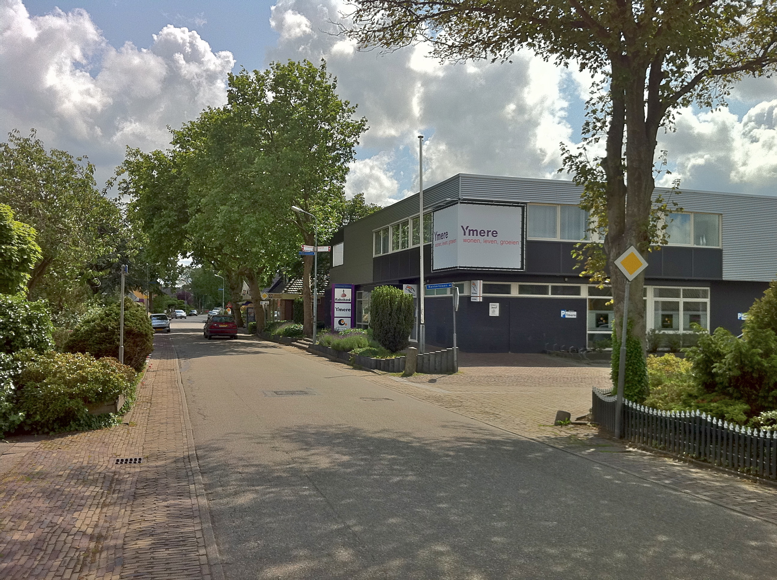 Vestiging Ymere Noord-Kennemerland aan de Bovenweg 180 te Sint Pancras, voorheen woningstichting Goed Wonen Koedijk Sint-Pancras